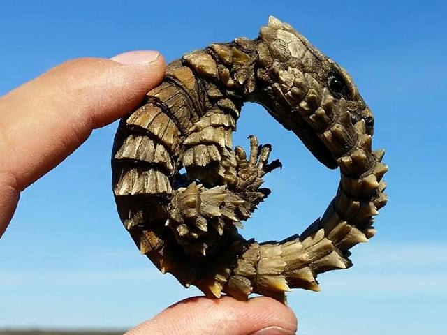 Ouroborus cataphractus - in sandveld 10km west of Trawal - South-western Cape, South Africa